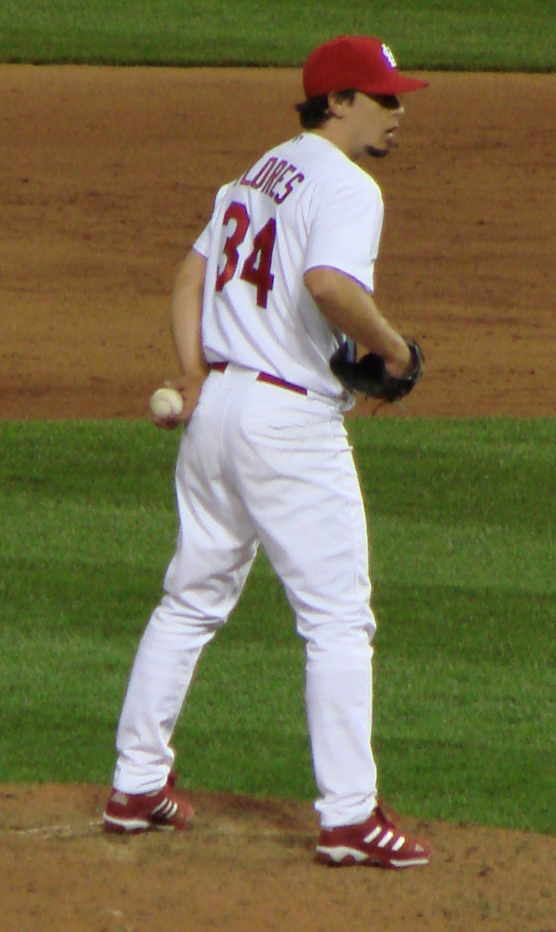 Randy Flores pitching for the St. Louis Cardinals on April 27, 2007. 19:51, 14 July 2007 . . Mshake3 . . 779×1304 (405 KB)